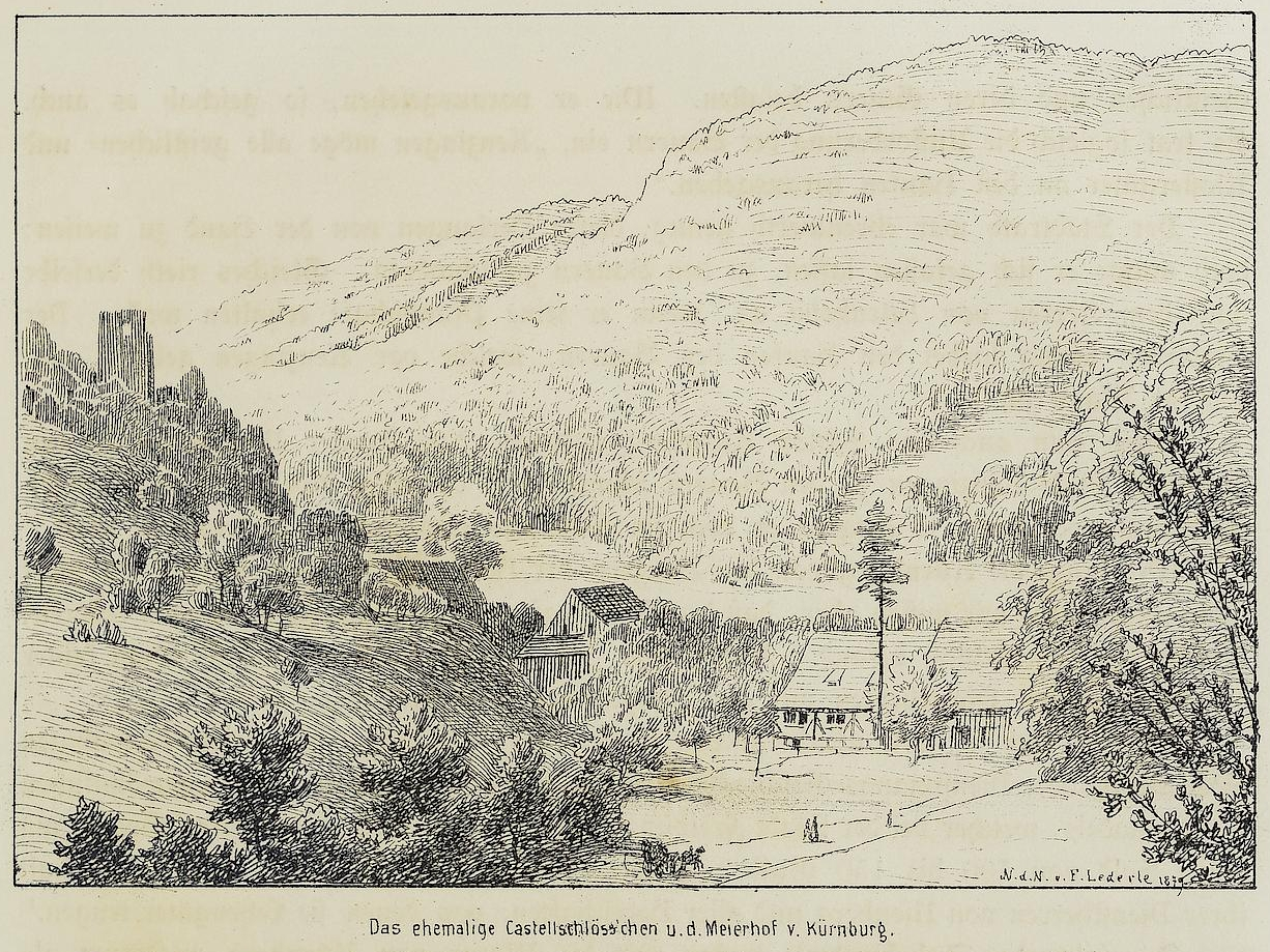 Kastenbuck Castle (on the left hand side)